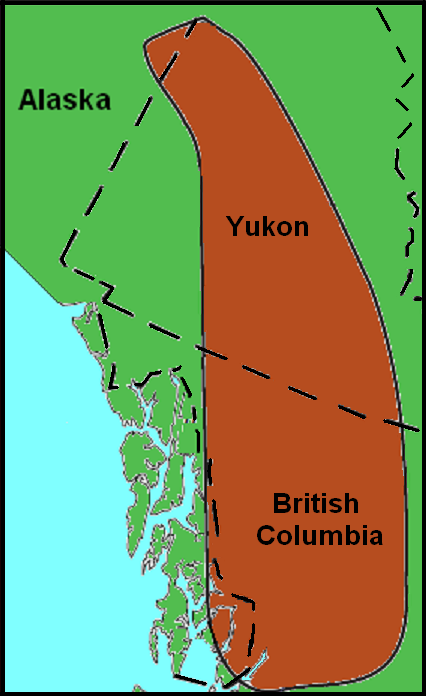 An outline of the Northern Cordilleran Volcanic Province.